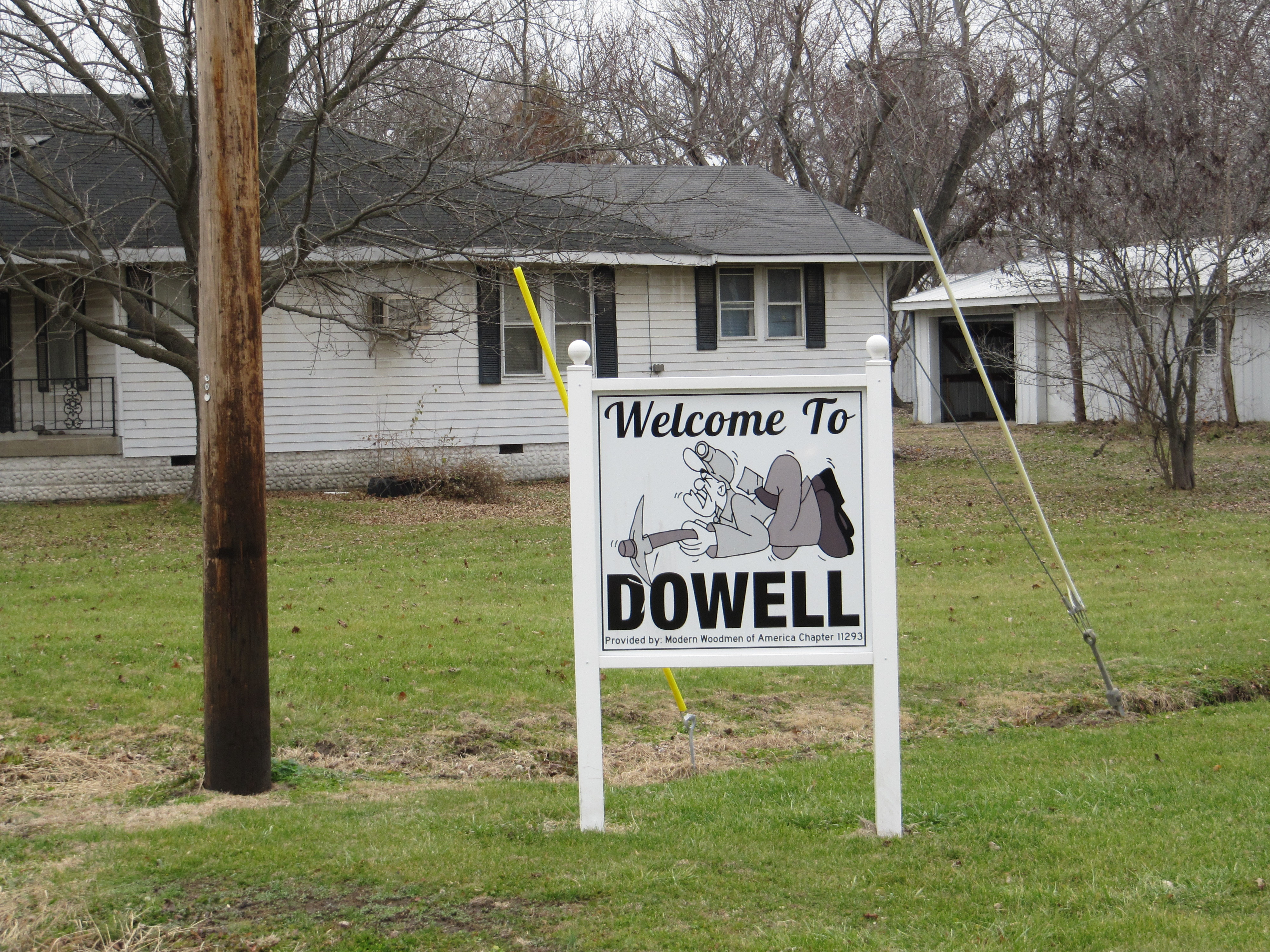 Entering Dowell, IL: 100 block of Union Street